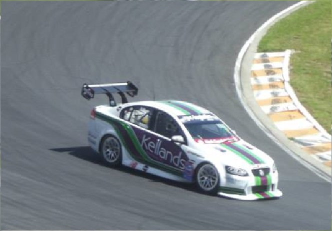 Richard Moore 2013 V8 SuperTourer Hampton Downs